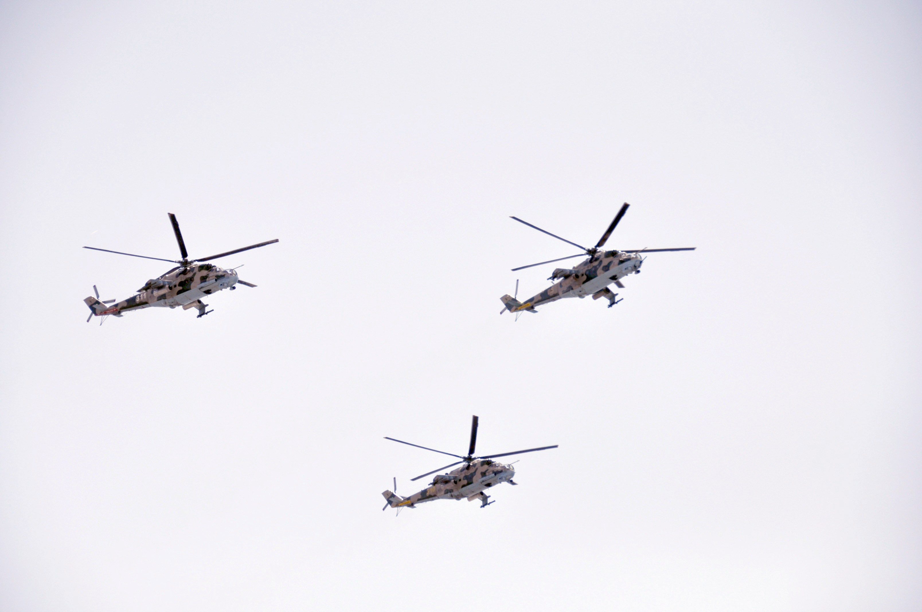 Military parade in Baku on an Army Day